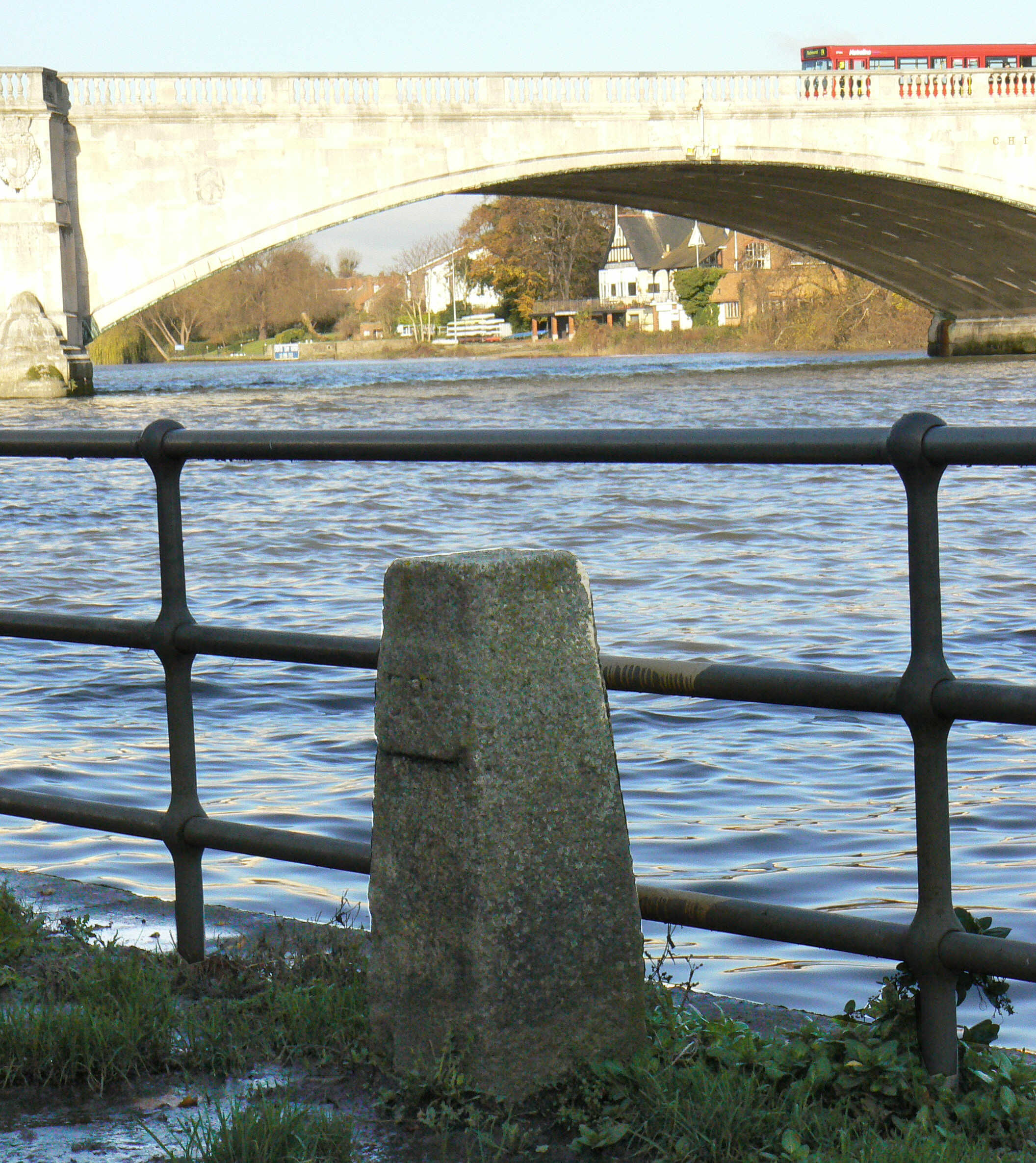 University boat race stone at Mortlake, near Chiswick Bridge on the Thames, London. This marks the finish of the Cambridge-Oxford University Boat Race.